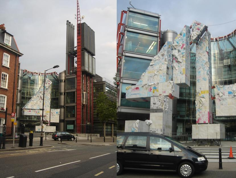 Two cropped images taken by myself (Adaircairell (talk) 22:59, 16 June 2008 (UTC)) of the Channel 4 building in Horseferry Road, taken on the 16 June 2008.